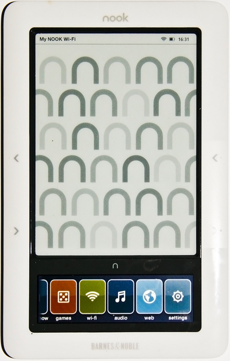 a photograph of a Barnes & Noble Nook